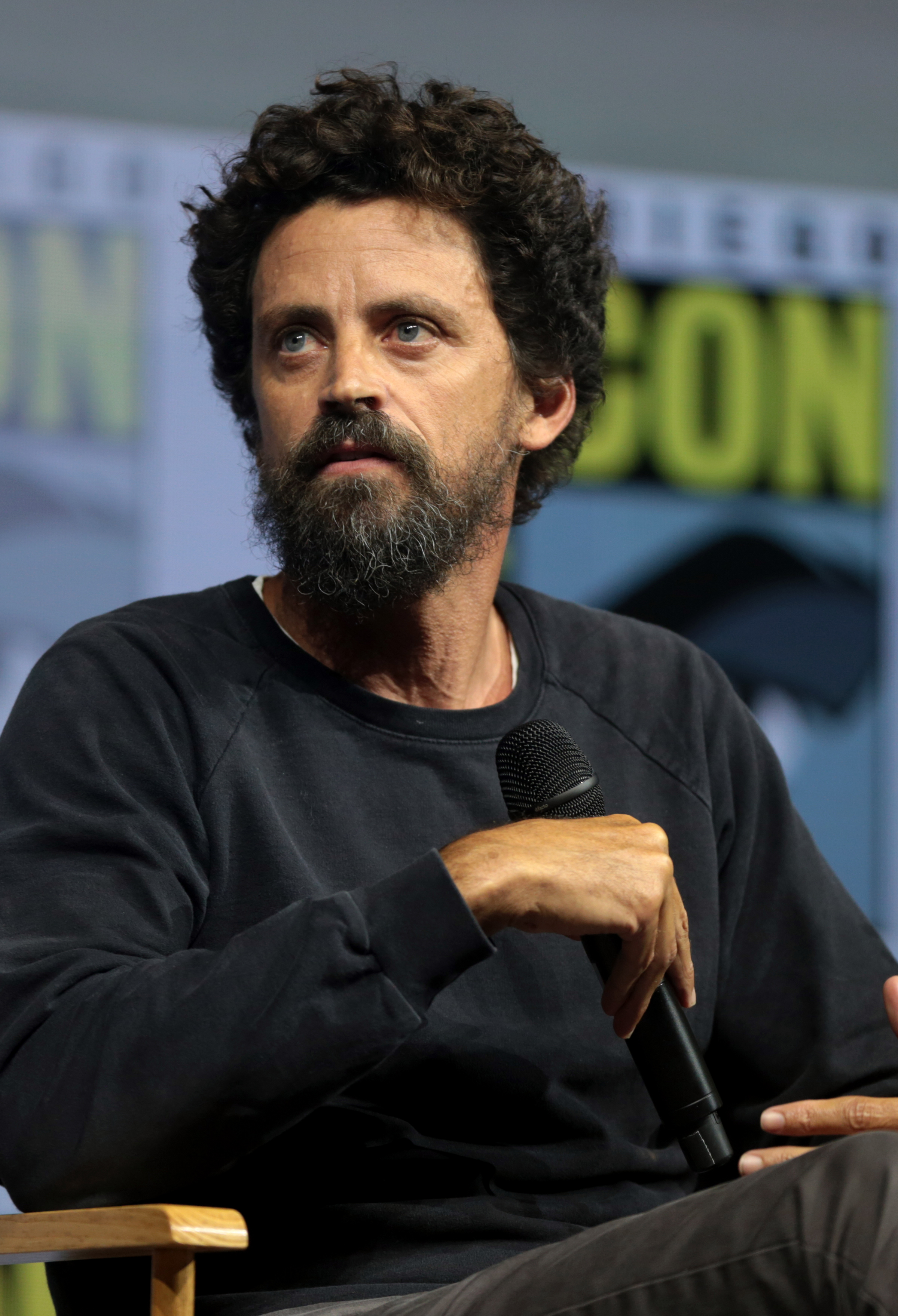 Bob Persichetti speaking at the 2018 San Diego Comic-Con International in San Diego, California.